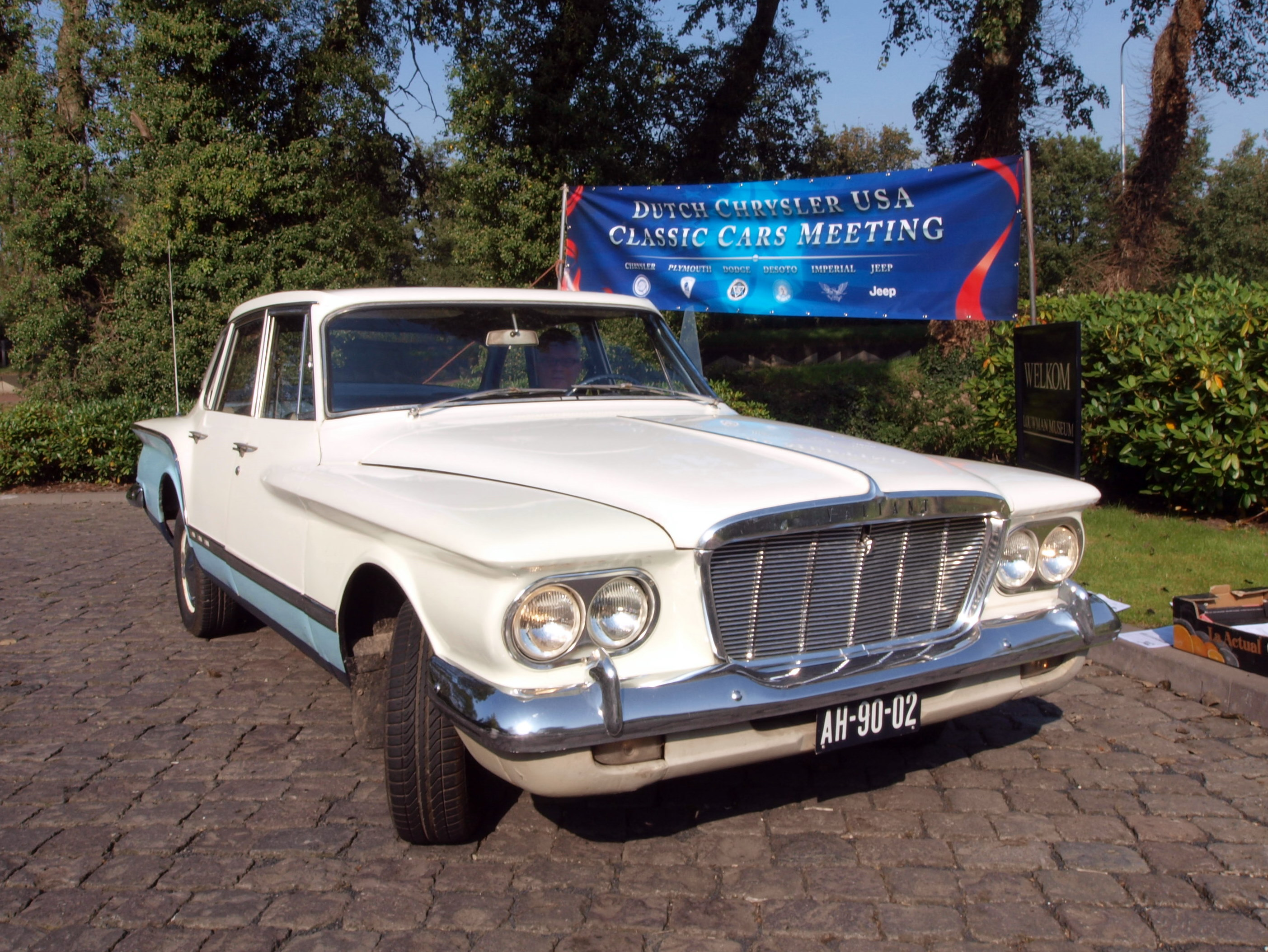 Photographed at the premises of the Louwman museum, The Hague, The Netherlands.